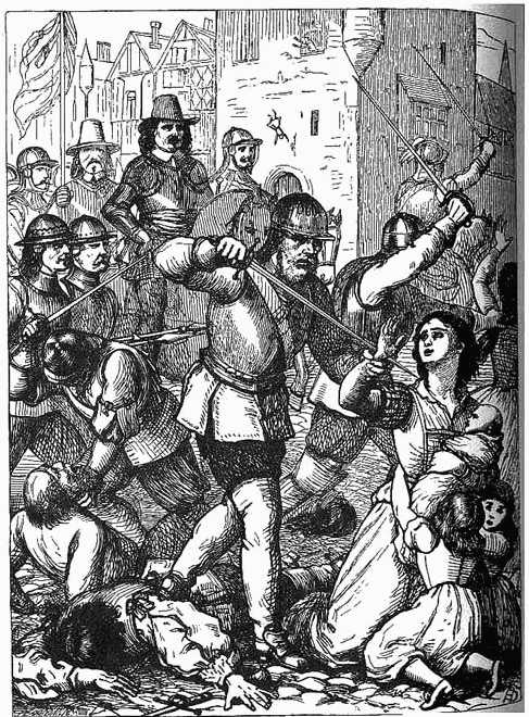 Massacre at Drogheda to print the book "History of Ireland from 400 to 1800"